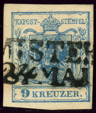 Austrian KK stamp, 9 kr of first issue 1850, cancelled at MISTEK (Moravia) - Mueller type RL-R